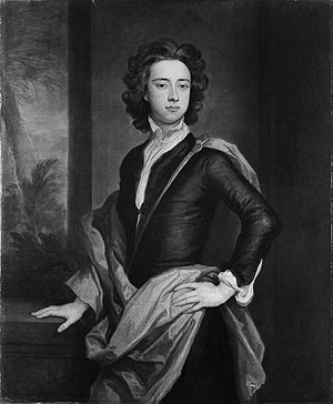 Charles Beauclerk, Duke of St. Albans, Son of Nell Gwyn and Charles II of England